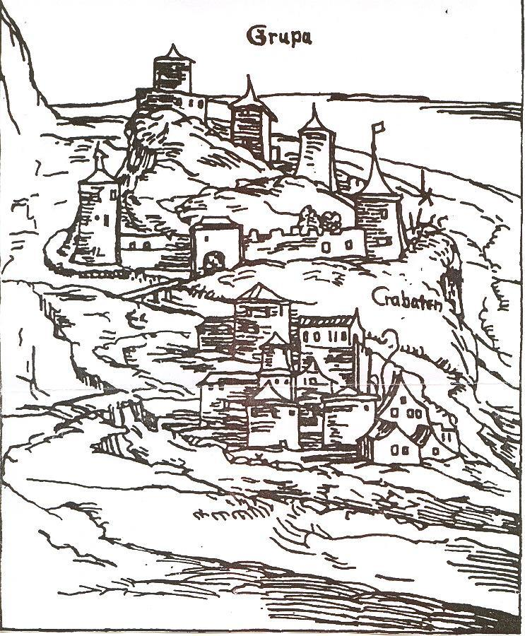 Krupa in the age of the Croats kingdom (woodcutting 1530) Source: Book by Radoslav Lopašić: Bihać i Bihaćka Krajina - Edition of D(Dretar Tomislav)I(Information and publication)N(Newspapers)A(Agency) DINA, Bihać 1993 (Tomislav Dretar Edition) alias Tomahawk Cheerocky --Tomahawk Cheerocky 15:27, 1 January 2006 (UTC)